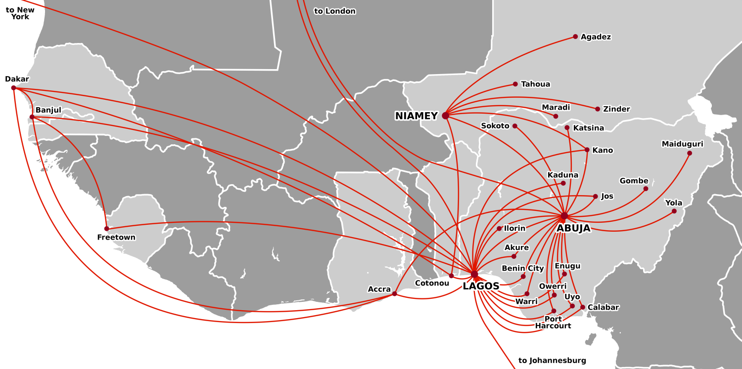 Map of routes flown by Arik Air as of November 2007